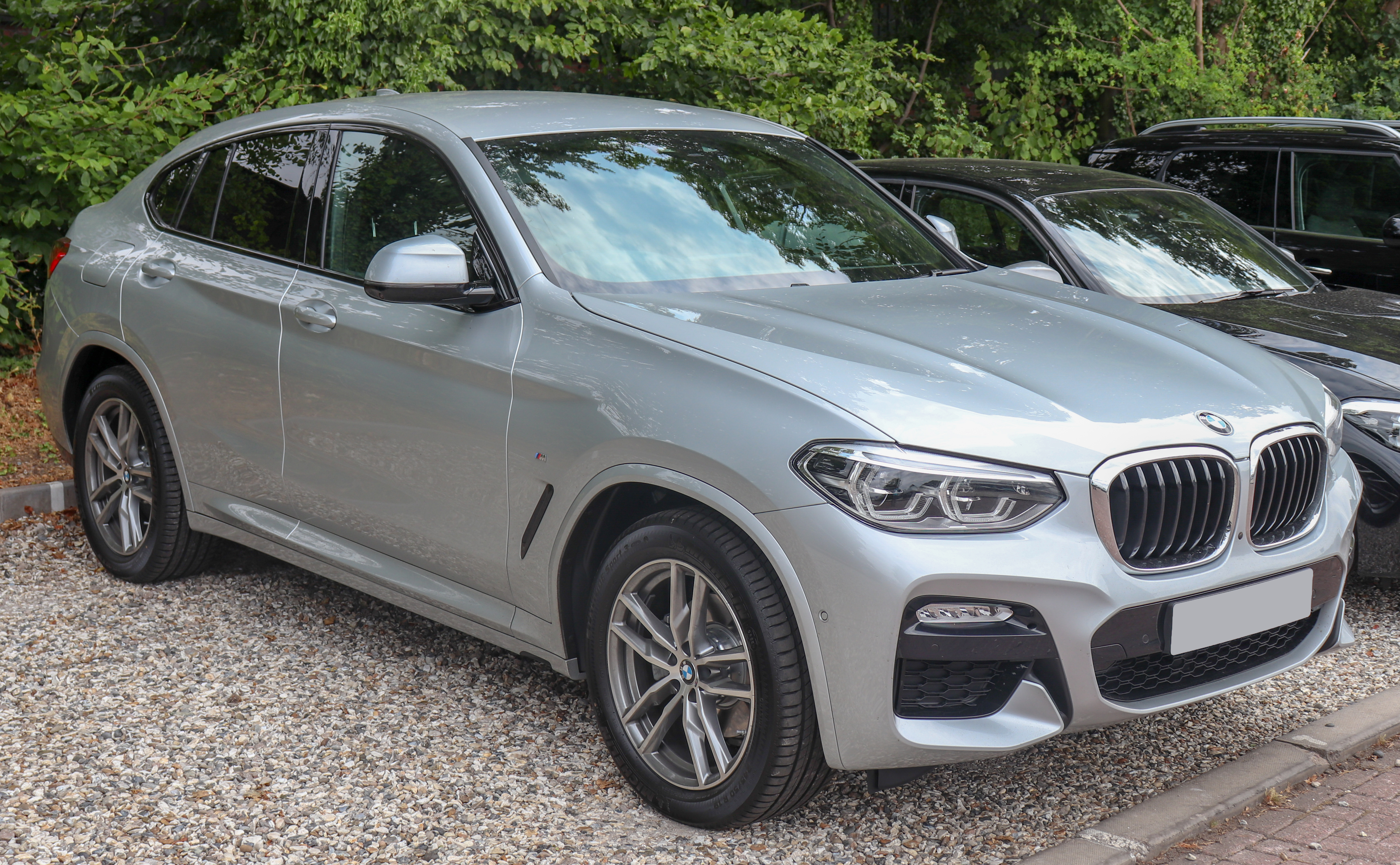 2018 BMW X4 xDrive20d M Sport Automatic 2.0 Taken in Leamington Spa